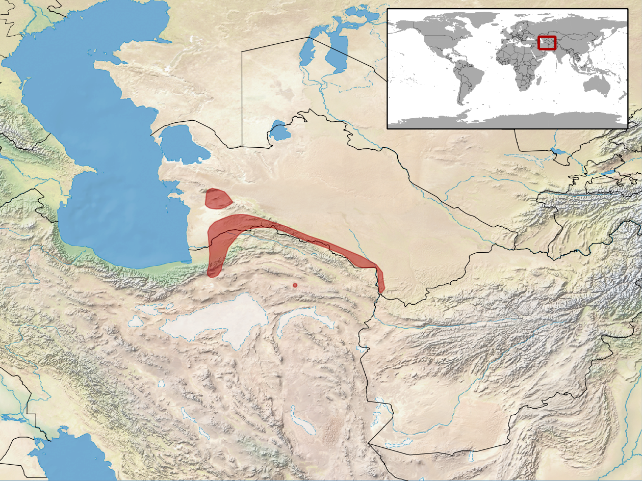 geographic distribution of Mediodactylus spinicaudum syn. Cyrtopodion spinicaudus (Native: Iran, Islamic Republic of; Turkmenistan)